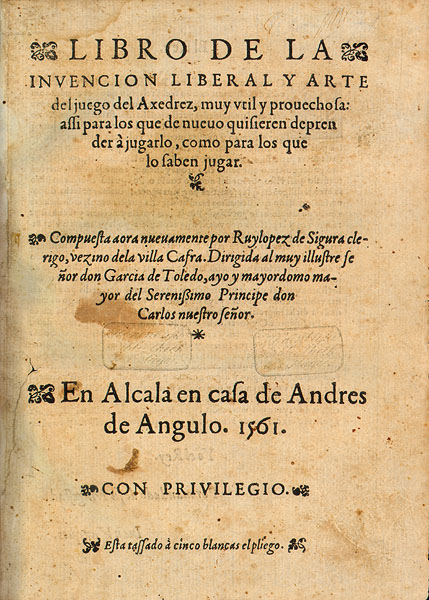 Title page of the book "Libro de la invencion liberal y arte del juego del axedrez" by Ruy López de Segura (1561)